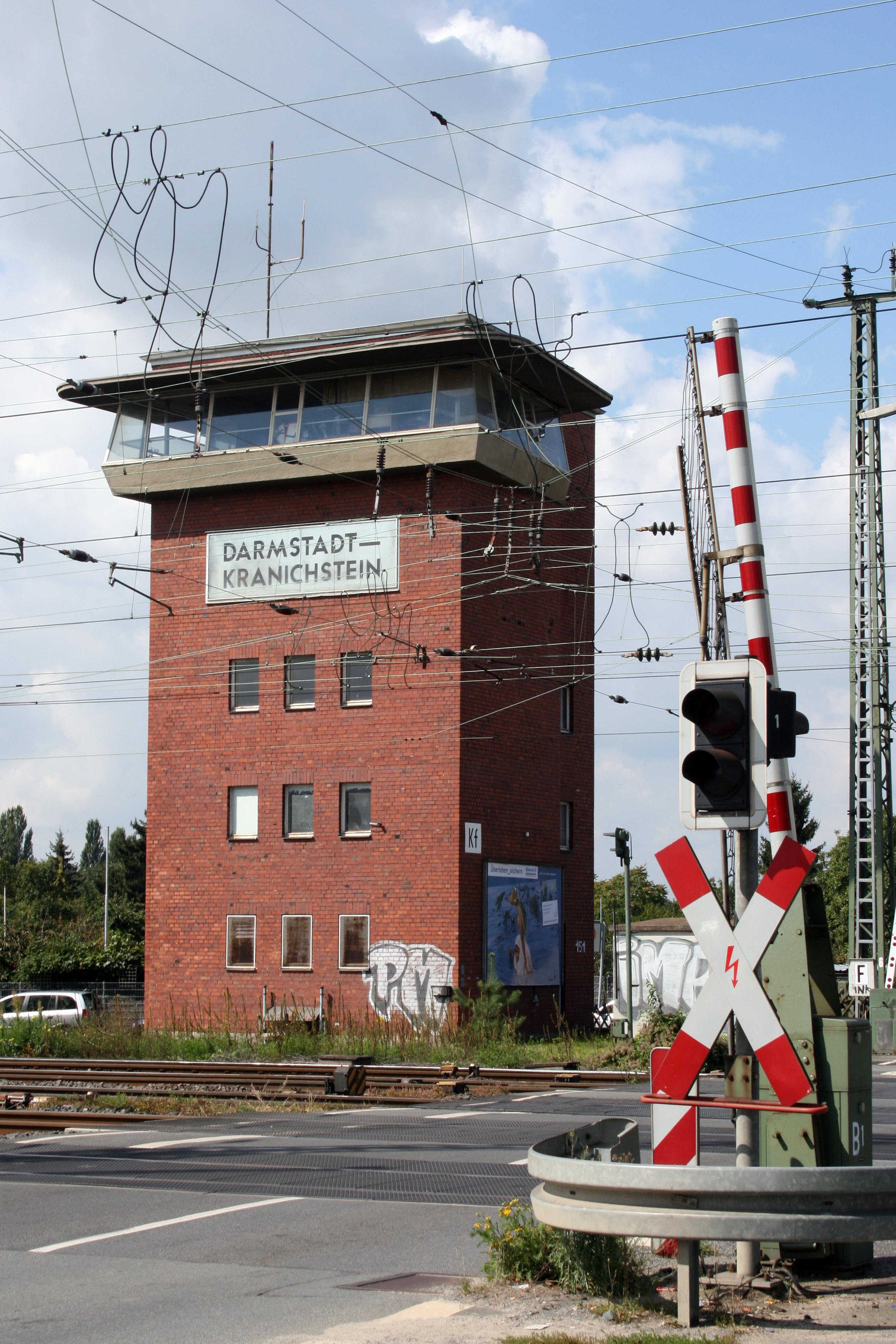 Signal box in Kranichstein, a district of Darmstadt, Germany